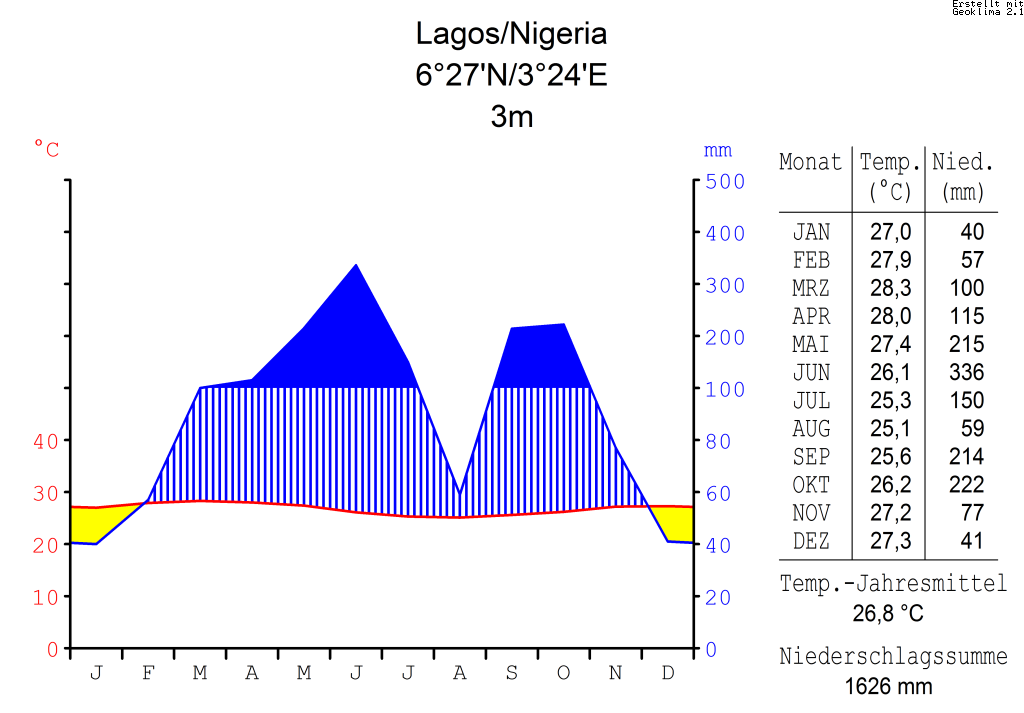 climate chart in the format by Walther and Lieth, metric, °Celsisus and millimeters, made with Geoklima 2.1 DateOctober 2006SourceSoftware: Geoklima 2.1 Website GeoklimaAuthorHedwig in WashingtonPermission (Reusing this file) Own work, attribution required (Multi-license with GFDL and Creative Commons CC-BY 2.5)